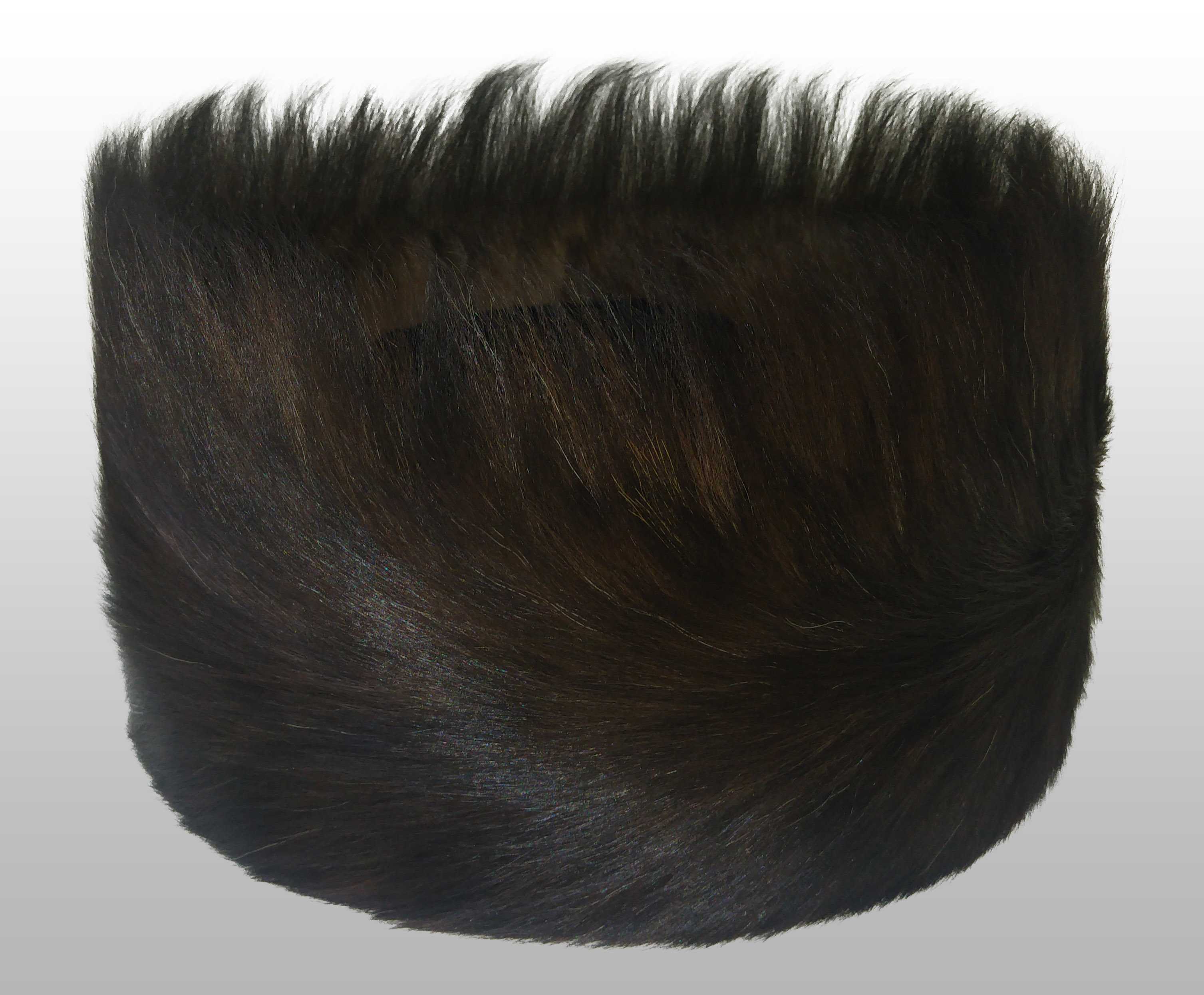 Shtreimel hat